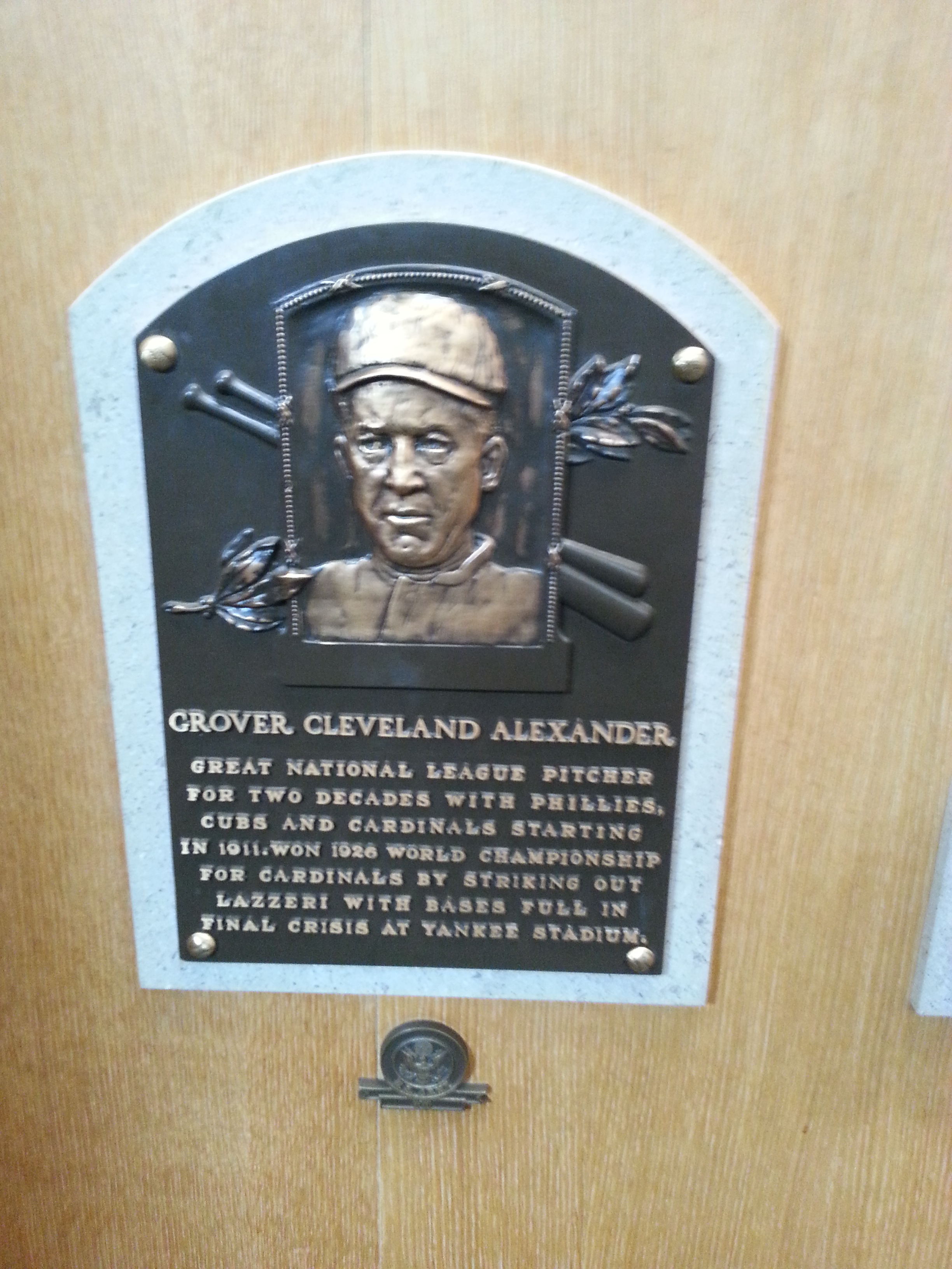 Grover Cleveland Alexander's plaque in the National Baseball Hall of Fame